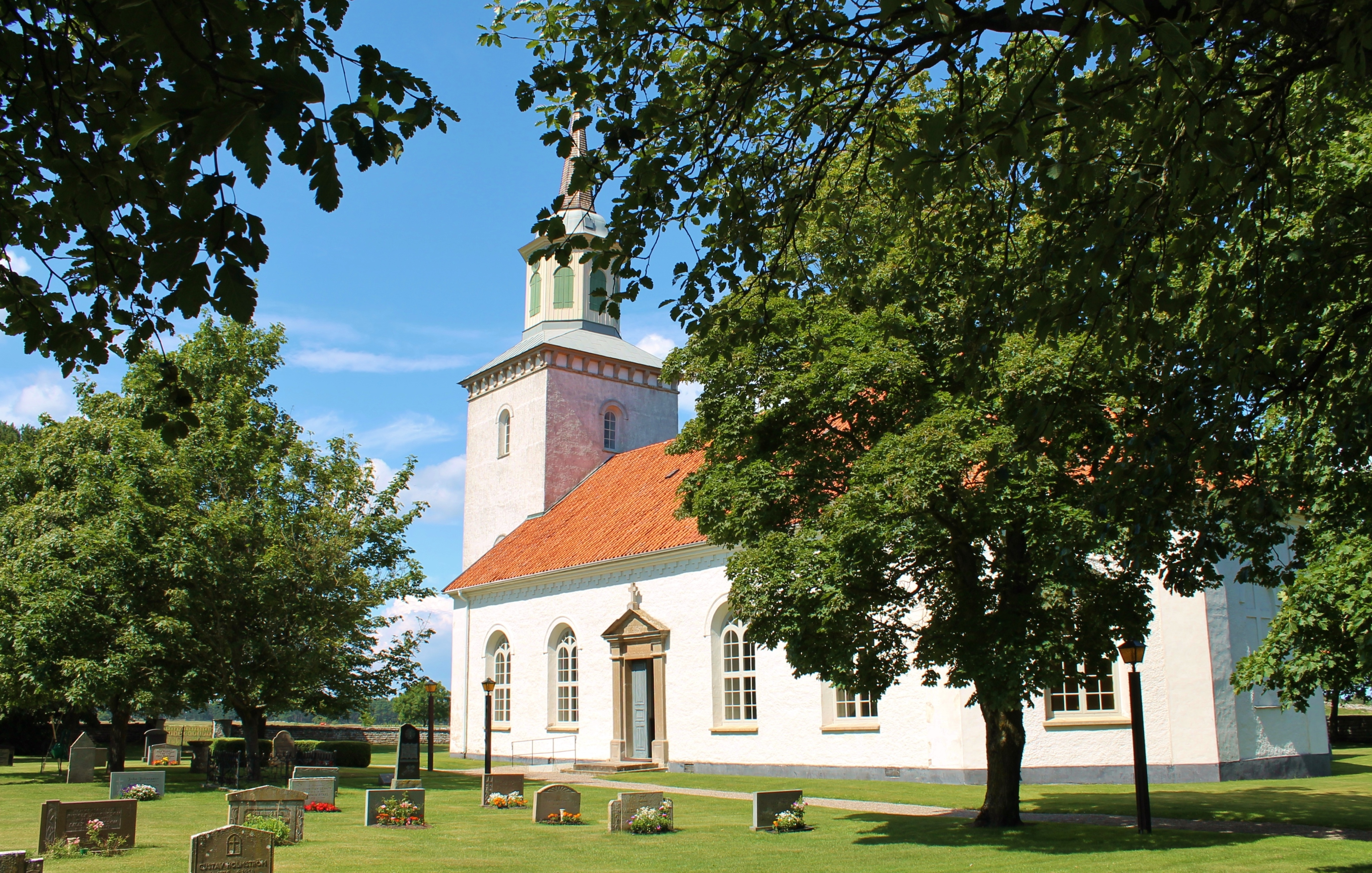 Sandby Church. 1860 started building contractor Peter Isebergs work with construction of Sanby Church. Isebergs had himself made the drawings, which are processed by Johan Fredrik Åbom in personal life. The Church was completed in 1863. The church building was a modern style marked by neoclassicism.